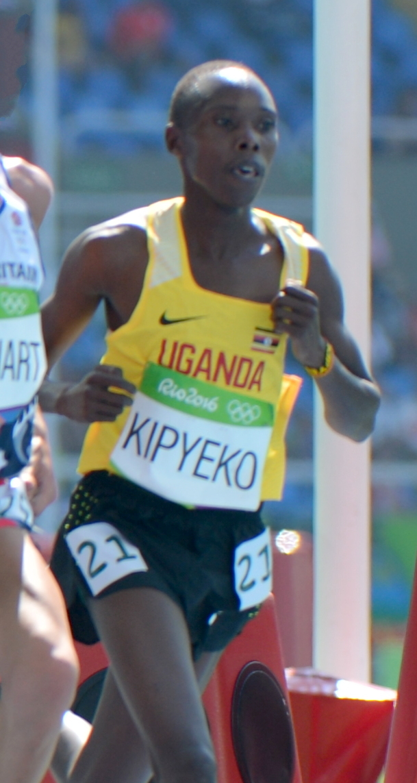 Phillip Kipyeko in the second heat of men's 5,000-meter run, Wednesday, Aug. 17 at the Rio Olympic Games in Rio de Janeiro. U.S. Army photo by Tim Hipps, IMCOM Public Affairs #SoldierOlympians #ArmyOlympians #ArmyTeam #GoArmy #TeamUSA #RoadToRio #Olympics #ArmyStrong